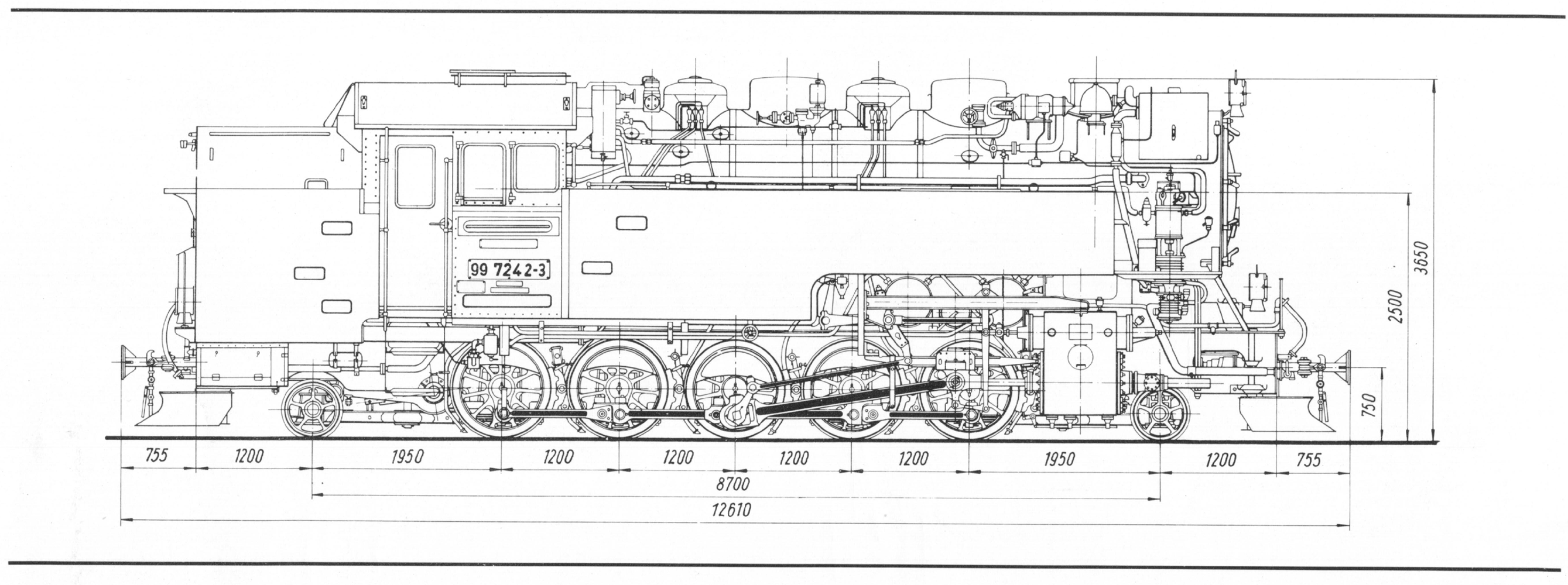 Sectional drawing of the steam locomotive number 99 7242-3 of the Deutsche Reichsbahn